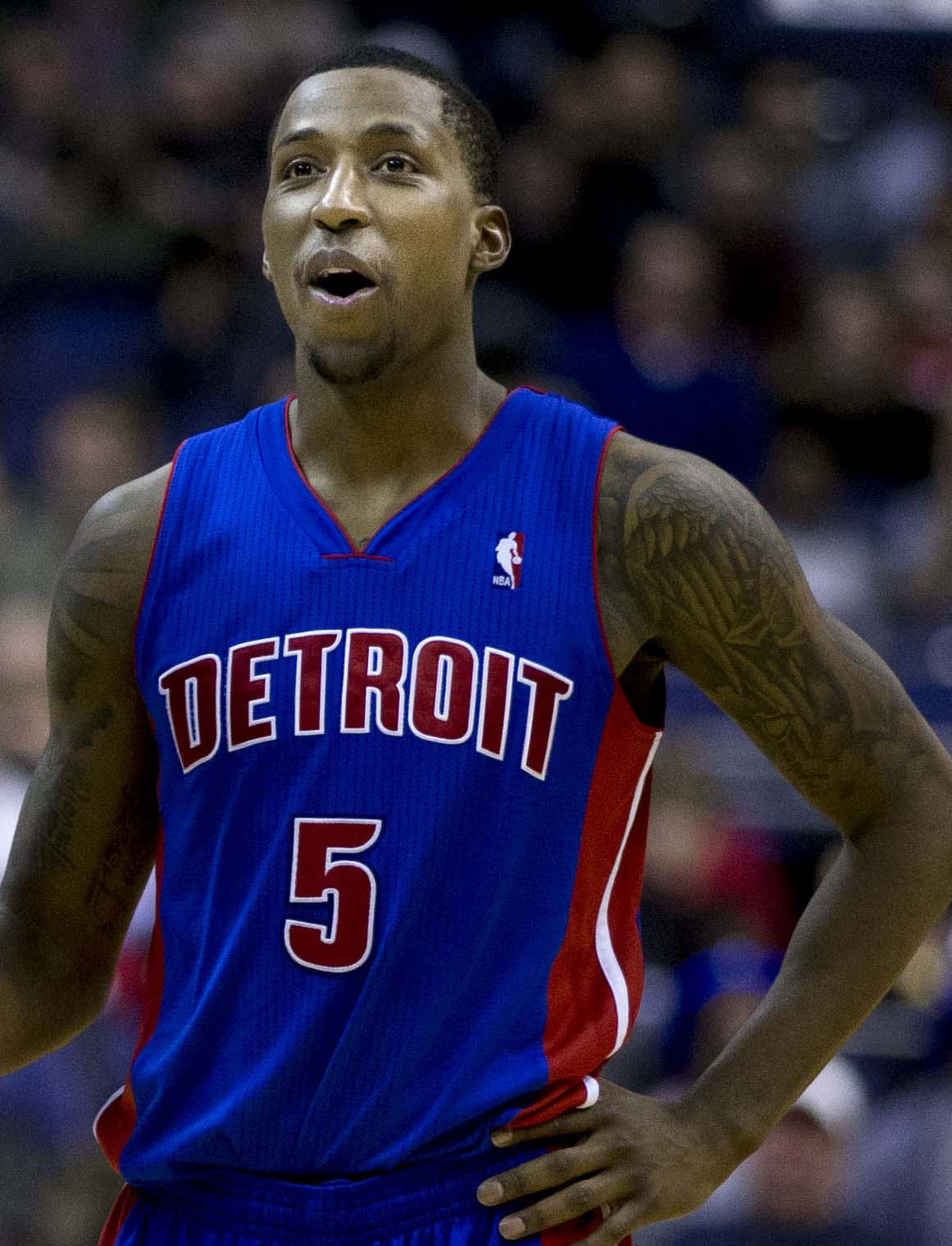 Kentavious Caldwell-Pope